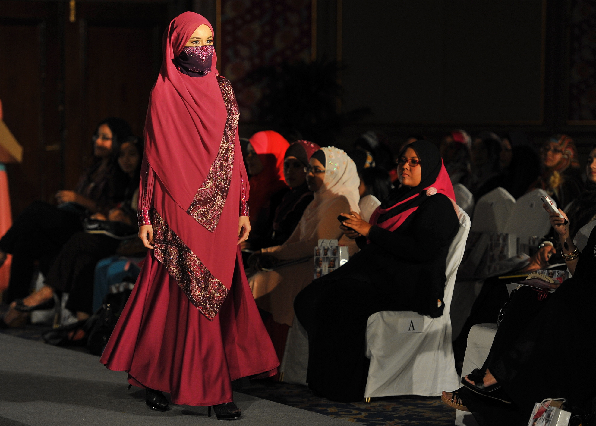 Kuala Lumpur,14/10/2012. Moslema in style fashion show at PWTC. (repoter sophia) Pic Firdaus Latif